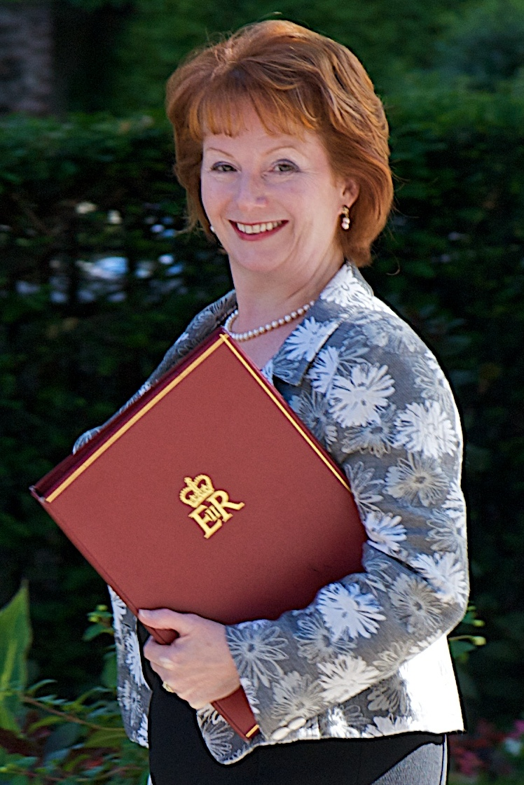 Hazel Blears, smiling yet again, British politician and outgoing Secretary of State for Communities and Local Government, walking up Downing Street in London.